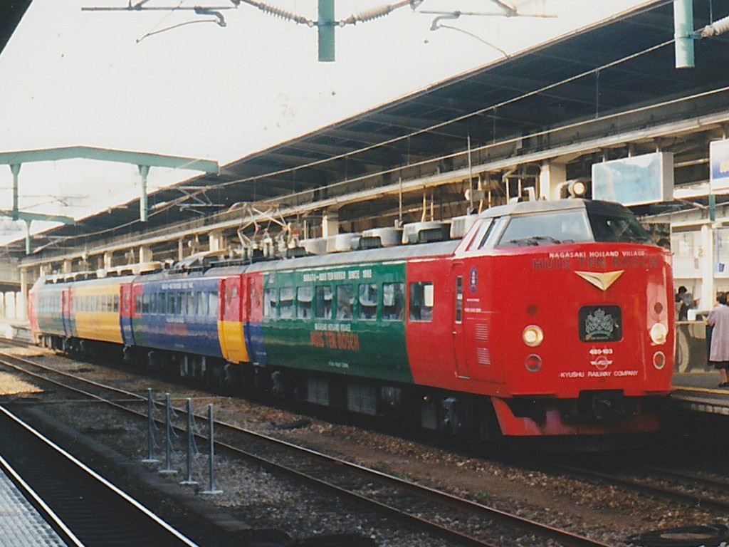 JRKyushu Ltd.Exp. "Huis Ten Bosch" JNR Series 485